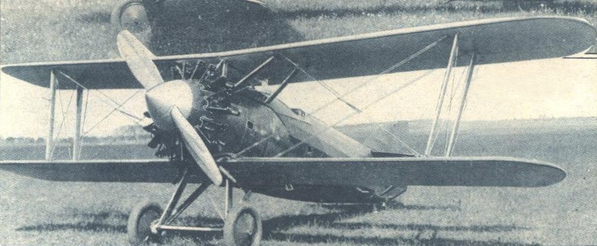 Aircraft Letov Š-31 with Pratt & Whitney Hornet 425 HP engine.